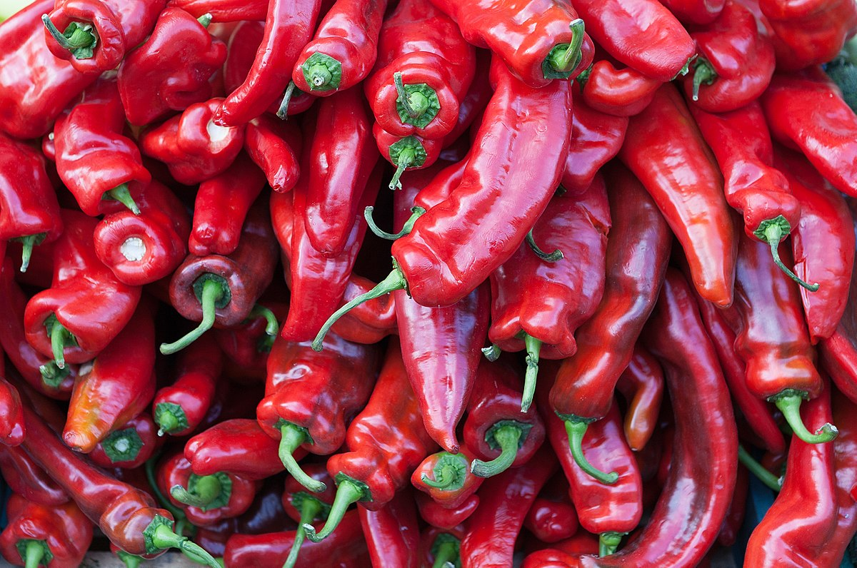 Chili